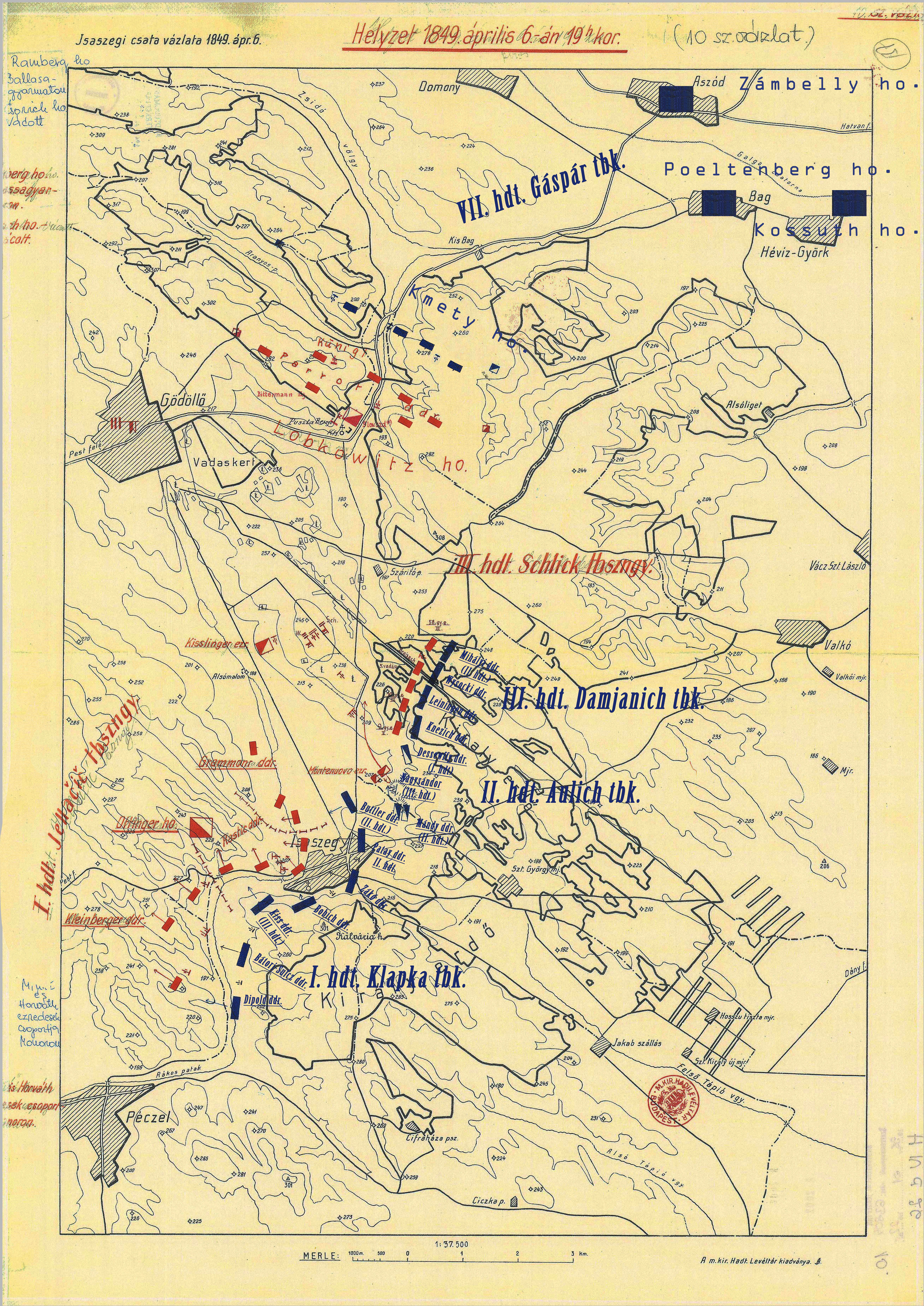 The situation at 19 o'clock. Red - the Austrian troops, Blue - the Hungarian troops.